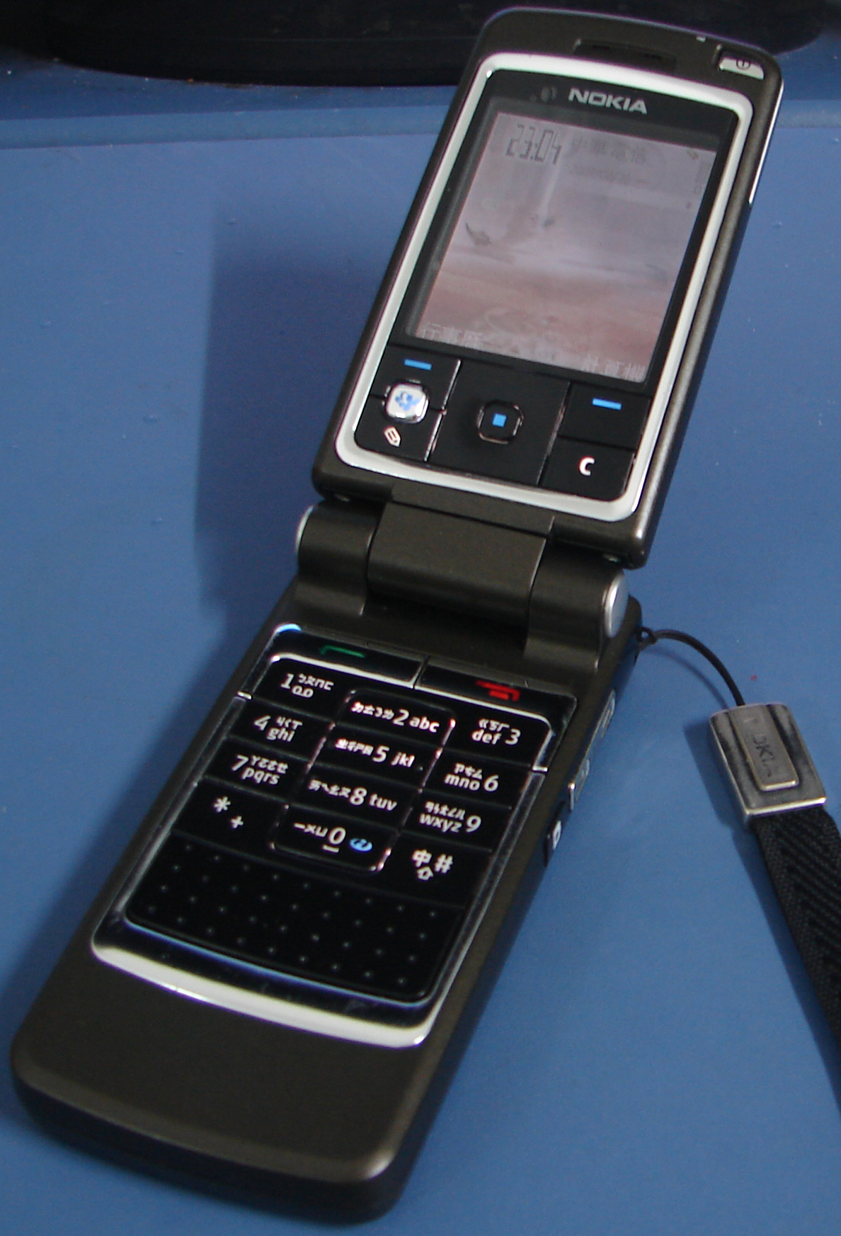 It's my phone, Nokia 6260.